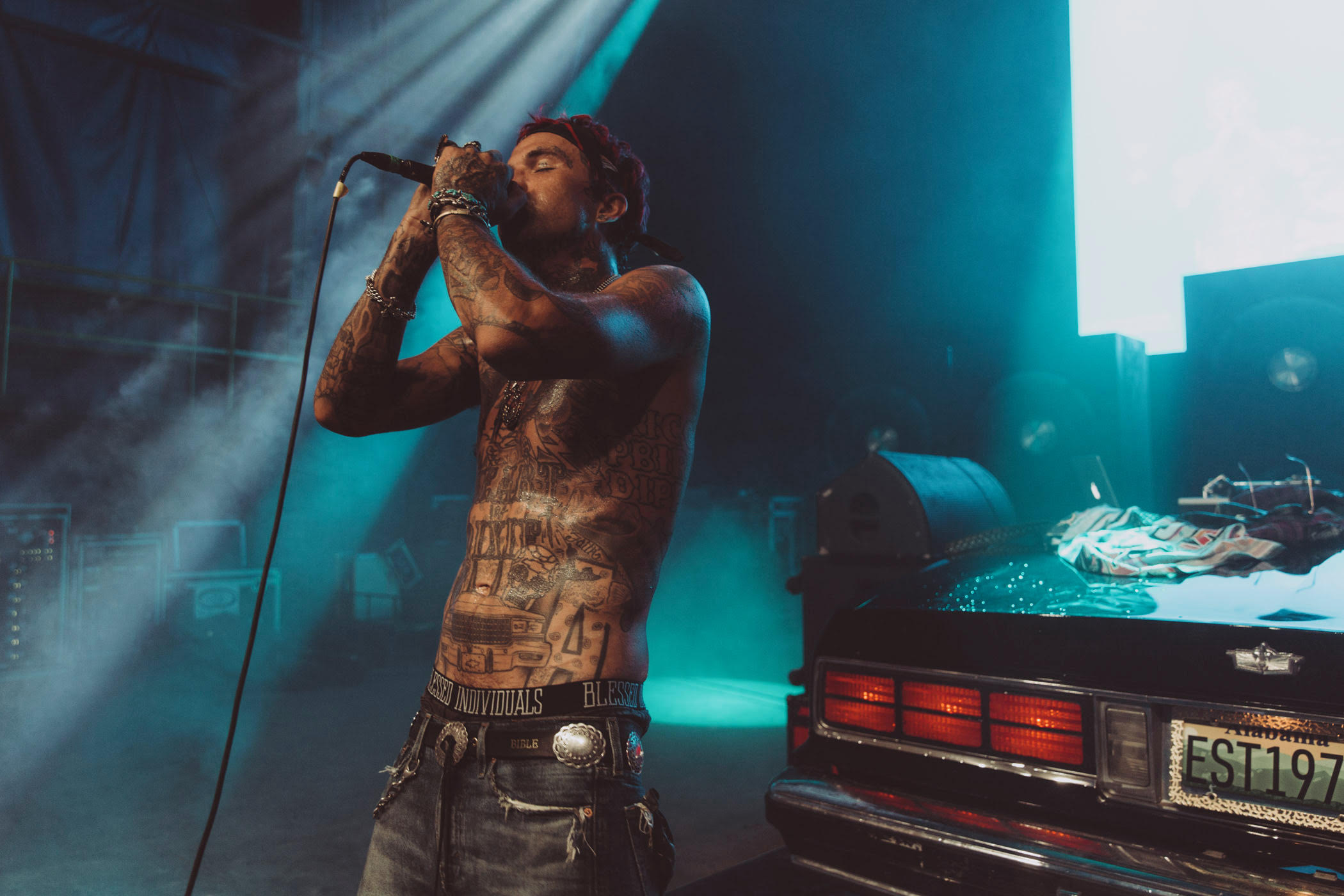 Birmingham, AL , Slumfest 2019, Michael Wayne Atha from Yelawolf